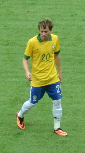 Bernard playing for Brazil national football team in 2013, against Australia.